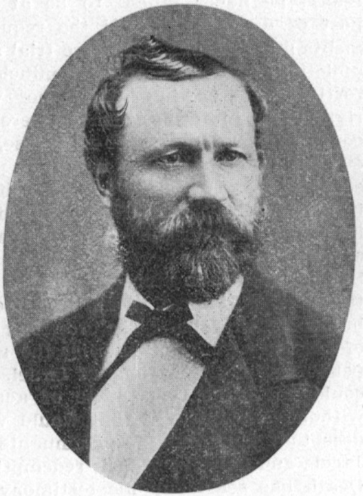 Photo of William W. Cluff, a Latter-day Saint missionary and leader in the 19th Century, and a member of the Utah Territorial Legislature.